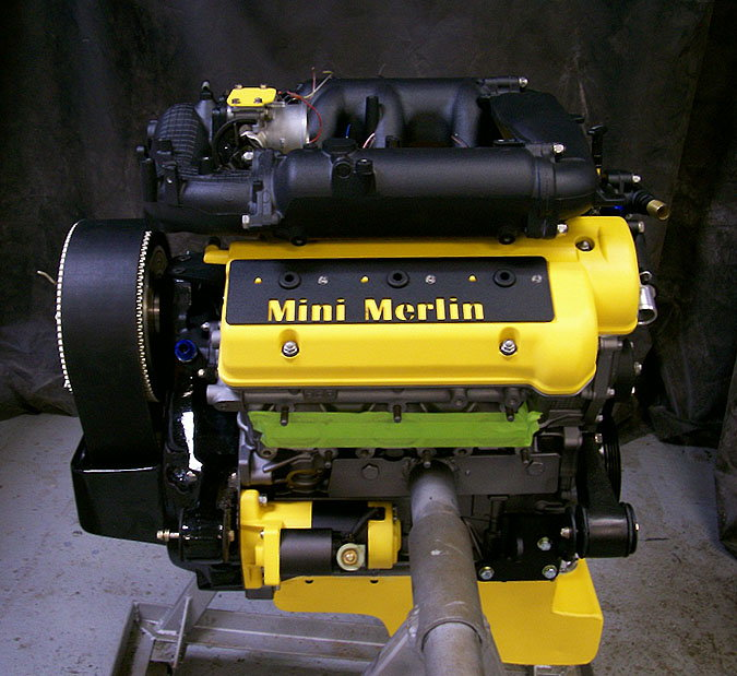 Suzuki V6 2.5L "Mini Merlin"